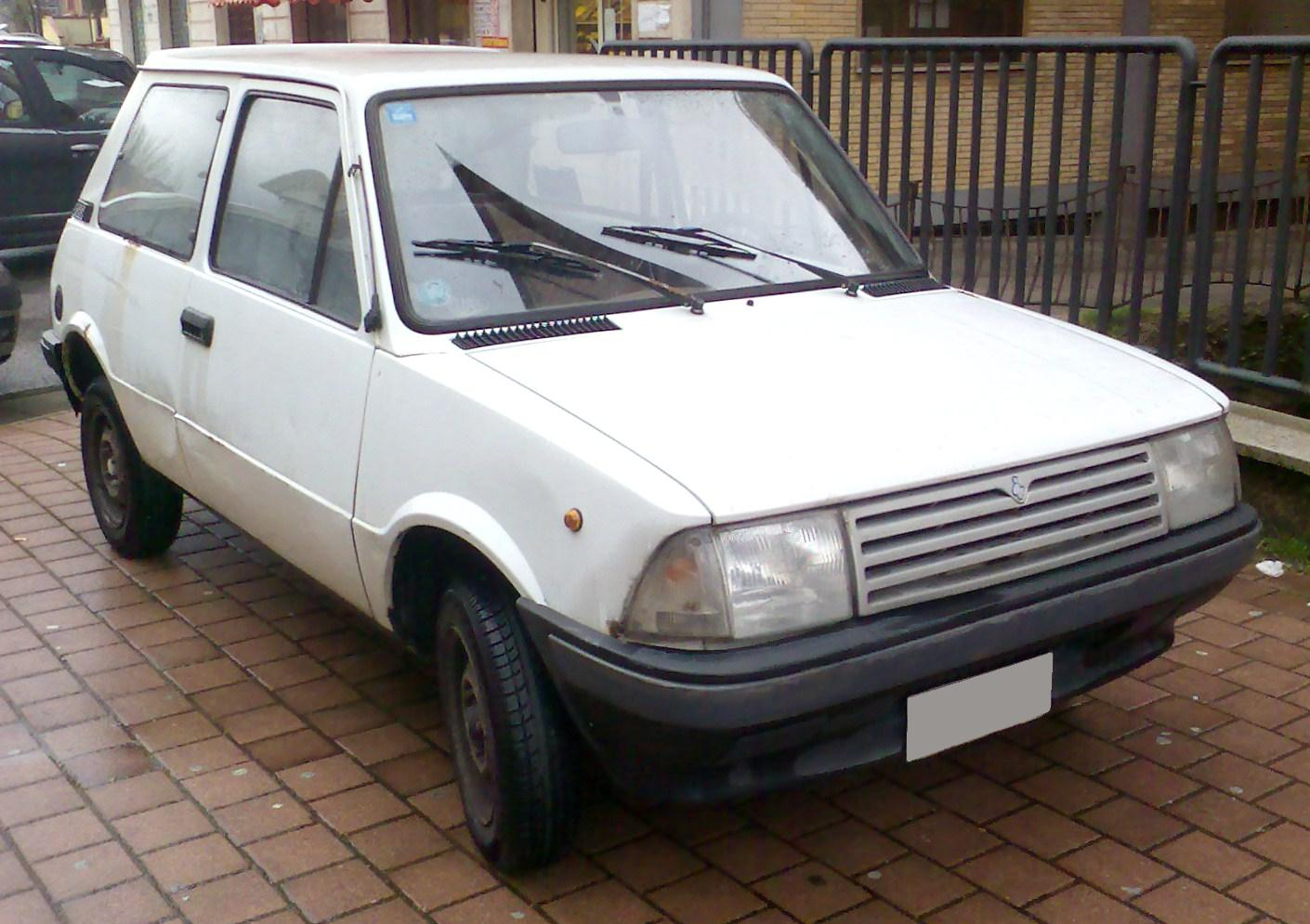 Mini 90